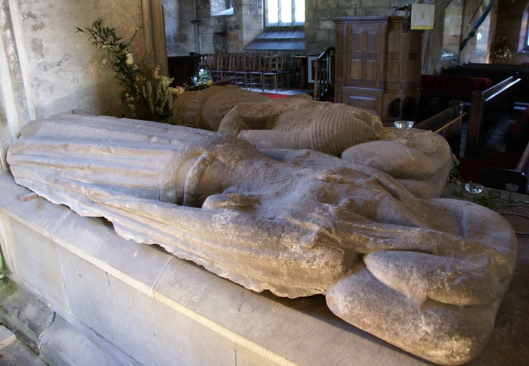 Culross Abbey, Culross, Fife, Scotland - effigies of John Stewart of Innermeath (died 1445) and his wife